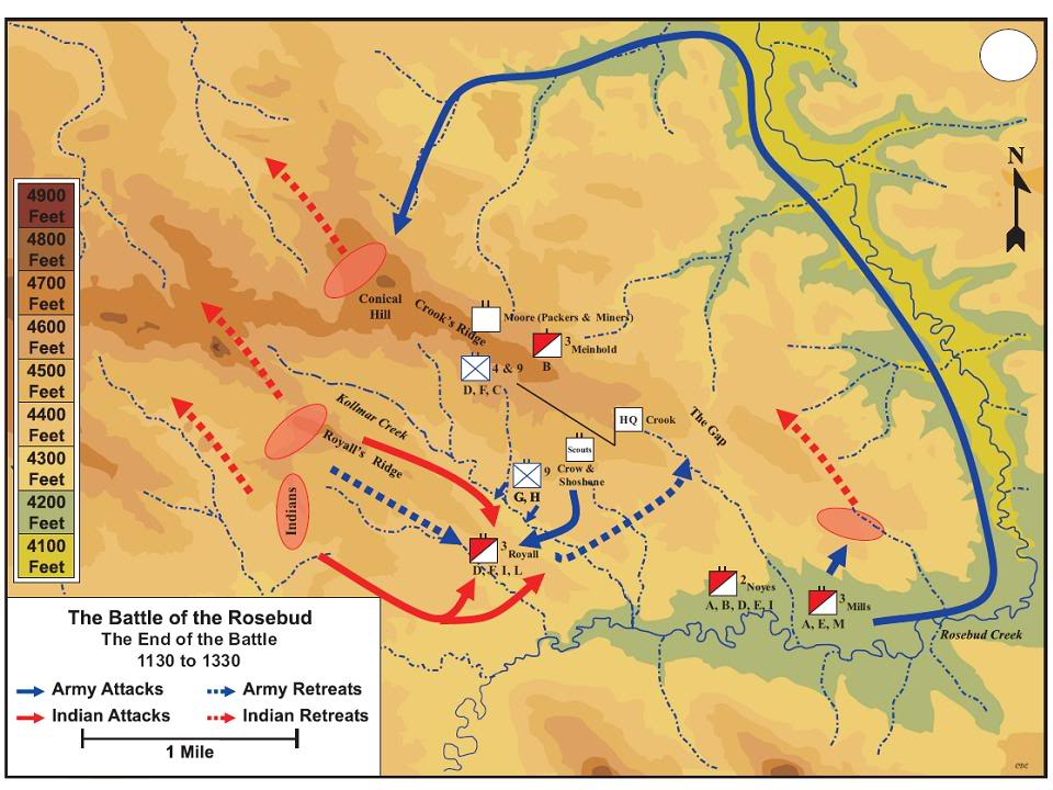 A map from the Atlas of the Sioux Wars showing the position of the opposing forces at the end of the Battle of the Rosebud, June 17, 1876